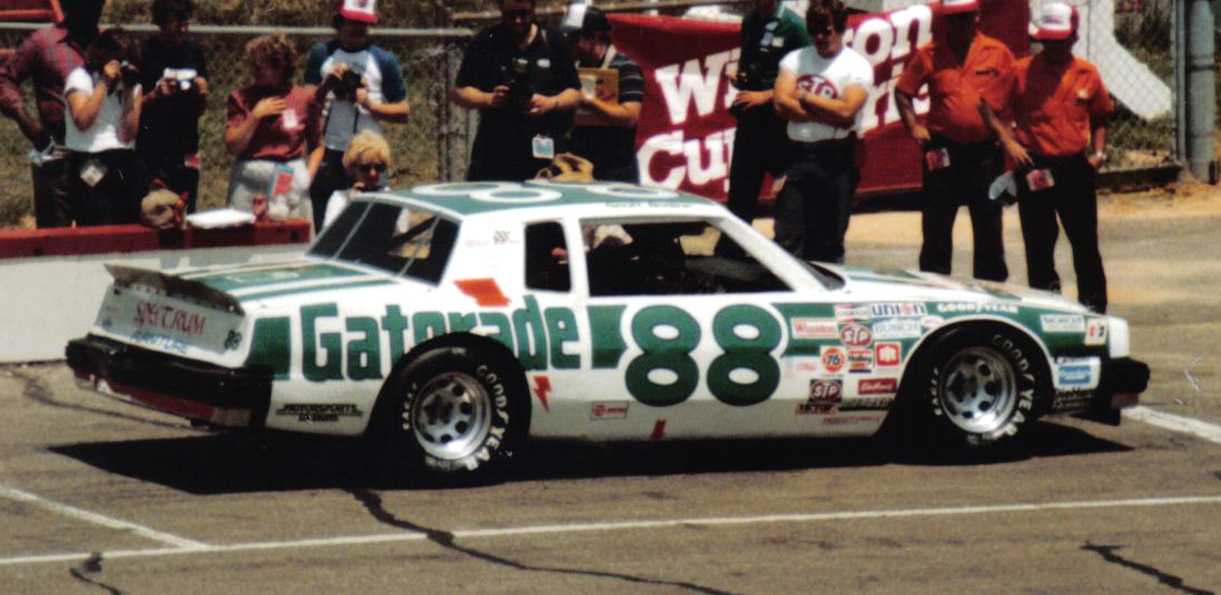 Geoff (or is it Geoffery today) Bodine driving the Cliff Stewart owned Gatorade #88 Pontiac at the 1983 Van Scoy 500. Bodine dropped out of the race and finished 30th.Geoff Bodine #88